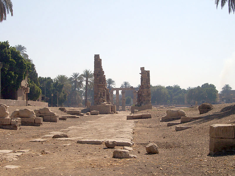 Gate of the emperor of Tiberius Caesar Augustus, Temple of Monthu, el-Madāmūd, Egypt